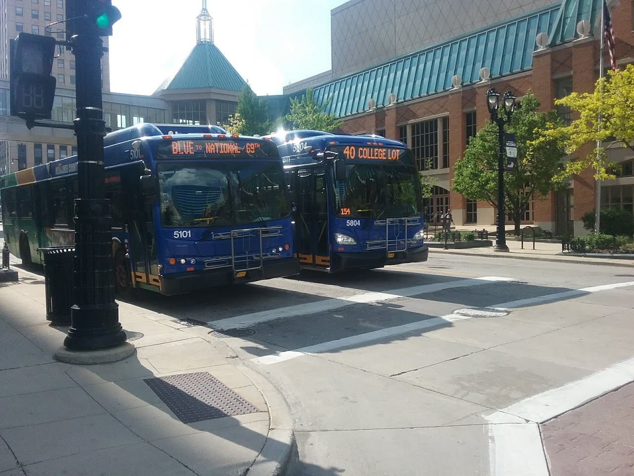 2 MCTS buses in Downtown Milwaukee